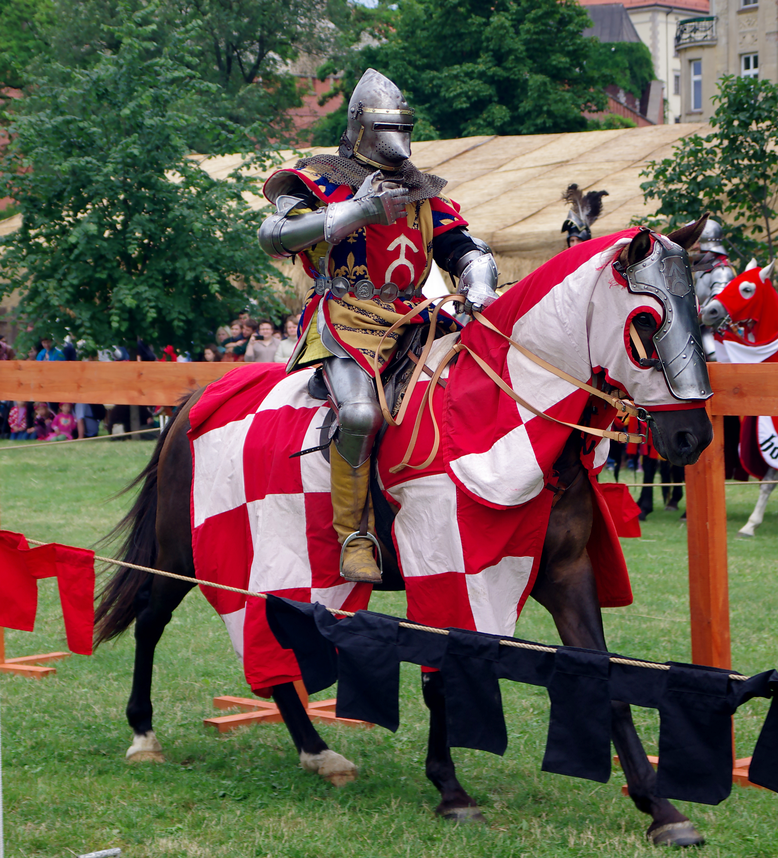 Mounted knight at Jarmark Świętojański festival in Kraków